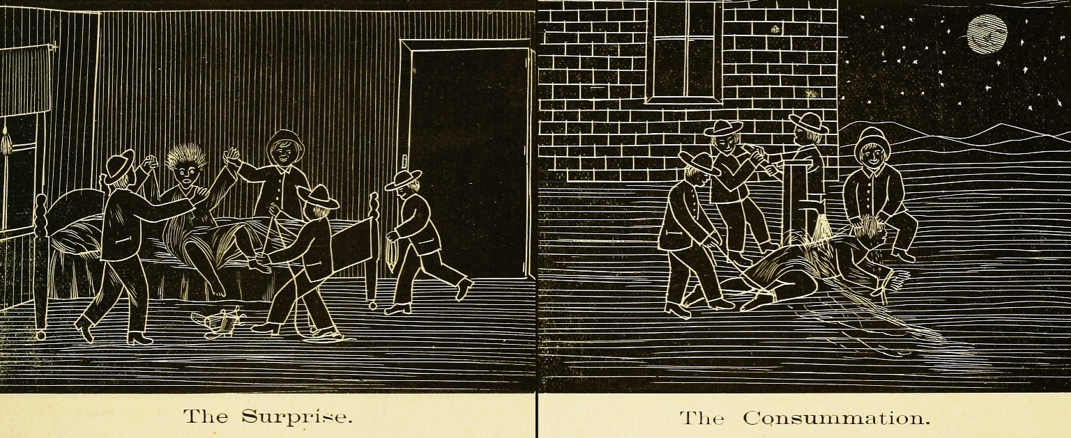 Two drawings of the "Scenes of Hazing", as printed in the 1880 Massachusetts Agricultural College yearbook. It is important to note that such behavior was not condoned by many of the faculty of the time (though this cannot be said of all) and is considered as ground for criminal charges and expulsion by the University of Massachusetts today. This image is here for historical purposes representing the student culture at the beginning of the land-grant college organization and is by no means shown here to encourage such behavior or intentionally tarnish the reputations of the present-day institutions. The Massachusetts General Laws, Chapter 269, §17-19, make hazing and any similar acts a criminal offense.